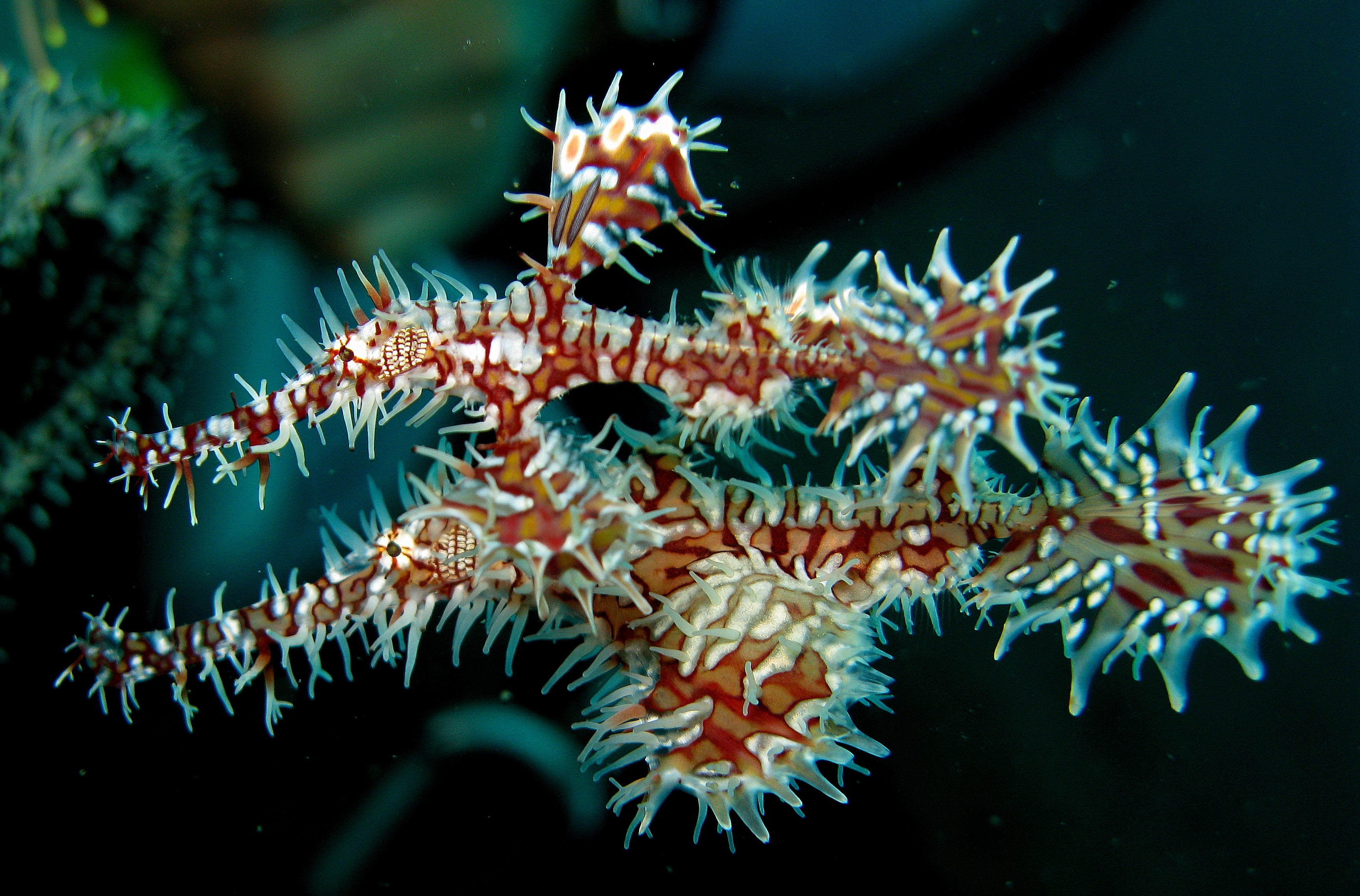 Ornate Ghost Pipefish (Solenostomus paradoxus )